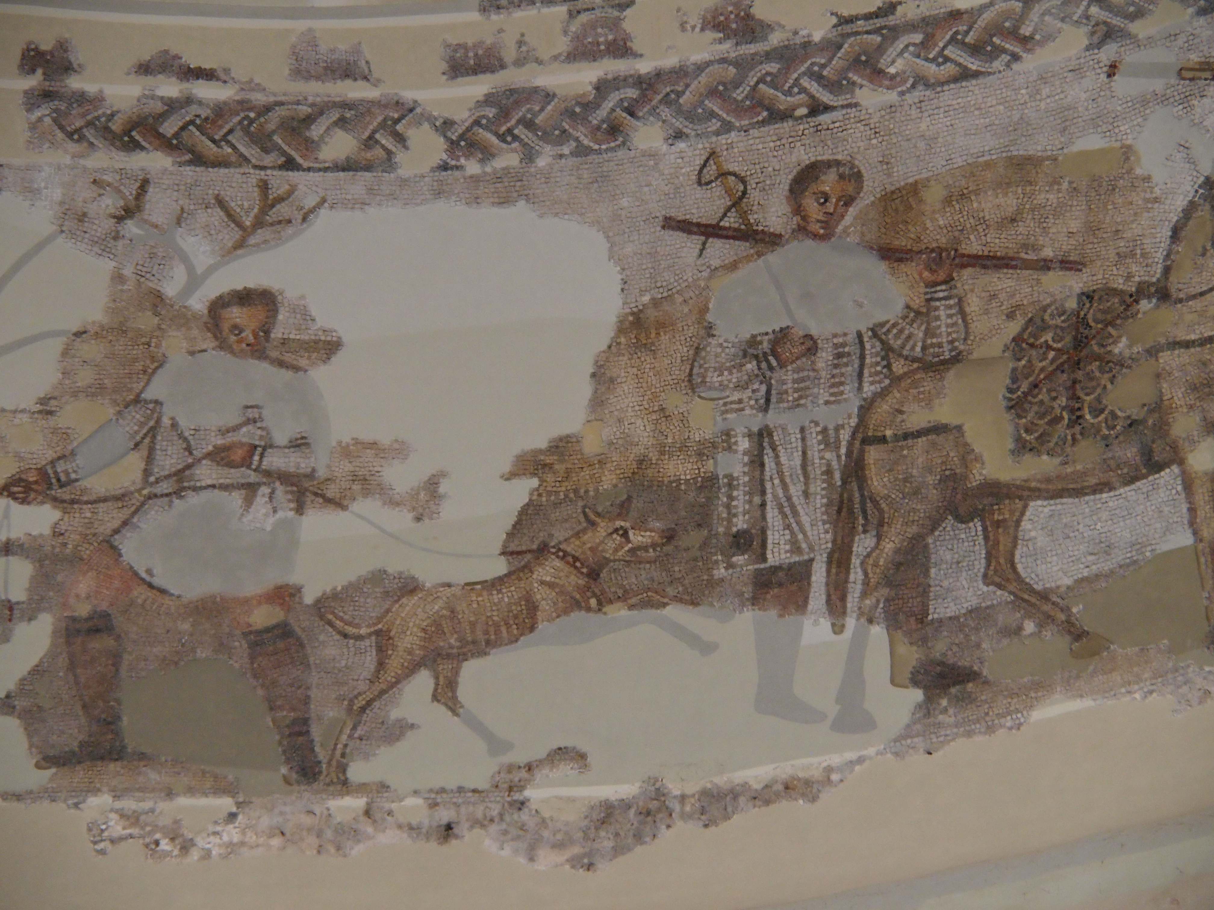 Detalle escena de los batidores con perro